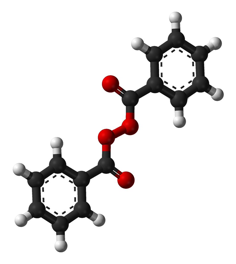 Ball and stick model of the benzoyl peroxide molecule.